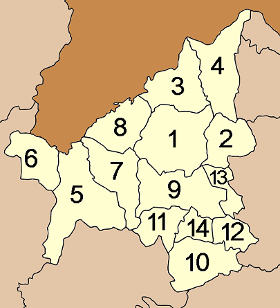 Map of the province Loei, Thailand with the districts (Amphoe) numbered. Mueang Loei Na Duang Chiang Khan Pak Chom Dan Sai Na Haeo Phu Ruea Tha Li Wang Saphung Phu Kradueng Phu Luang Pha Kao Erawan (King Amphoe) Nong Hin (King Amphoe)